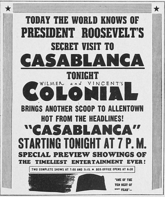 1942 - Colonial Theater - Casablanca (1942) promotional advertisement